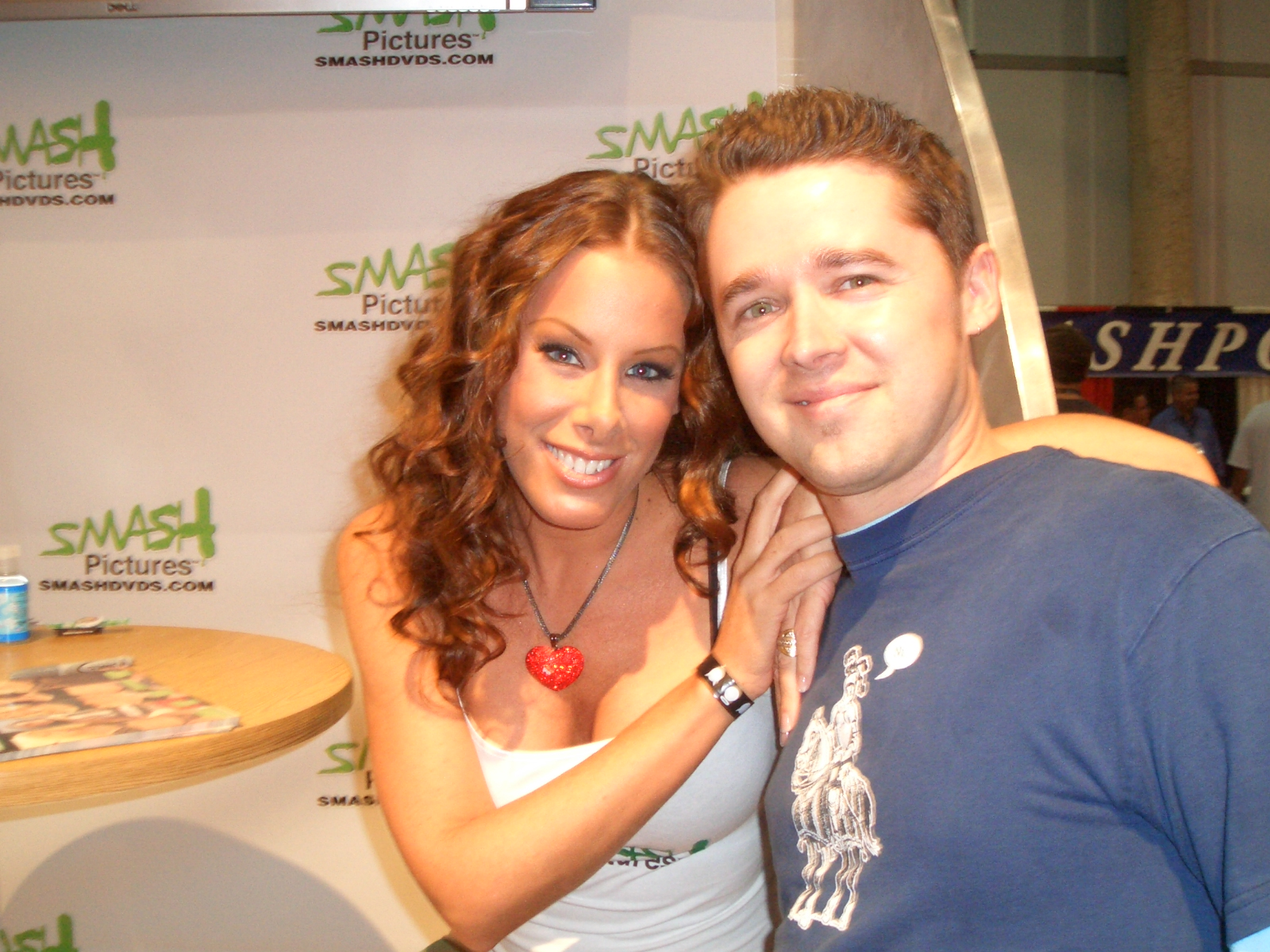 Nicole Sheridan. It's hard to tell from the angle and the fact that she's sitting down, but she's actually a foot taller than I am.